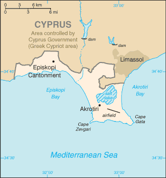 CIA World Factbook map of Akrotiri SBA.